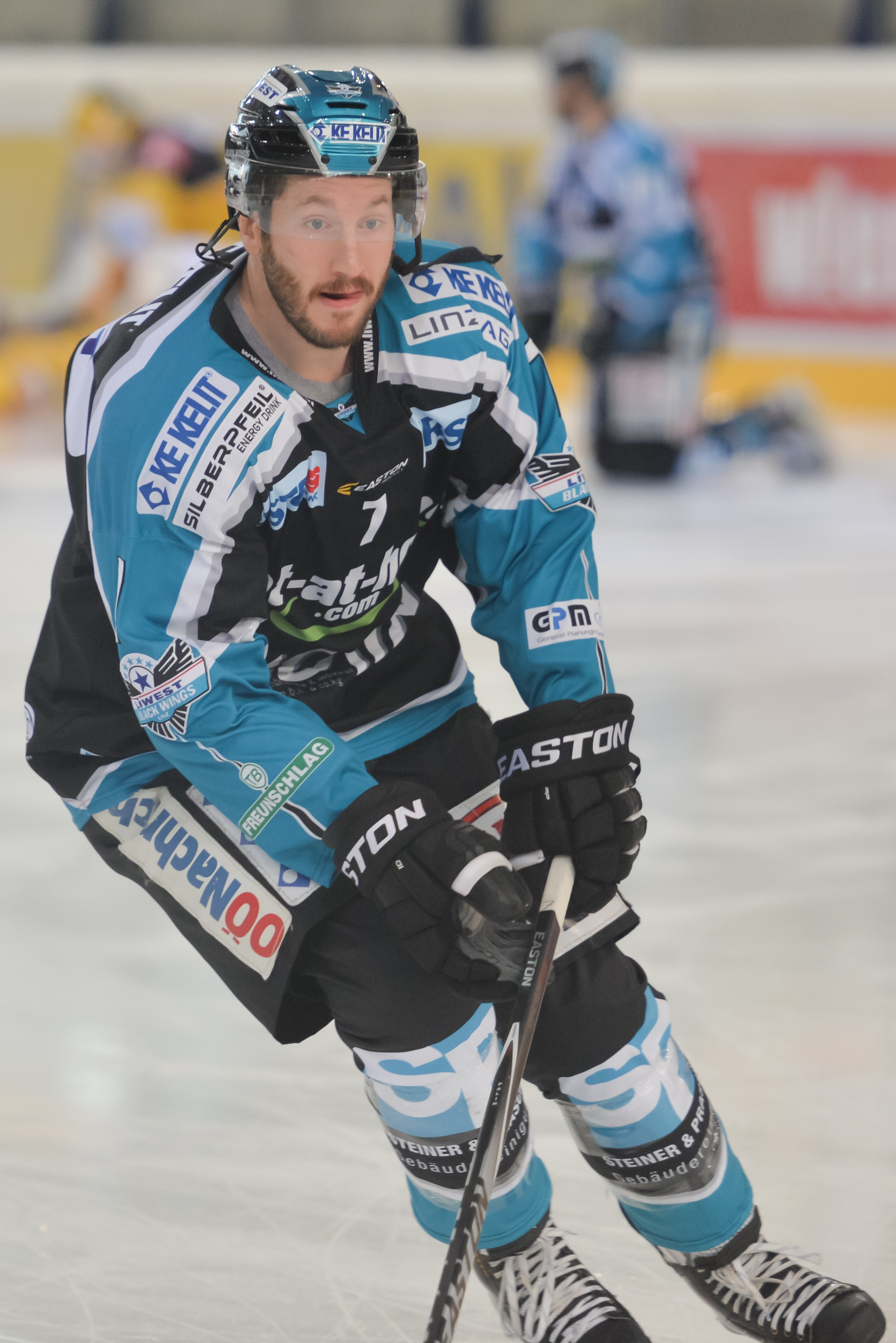 EBEL Vienna Capitals vs. EHC Liwest Black Wings Linz 2016-01-24